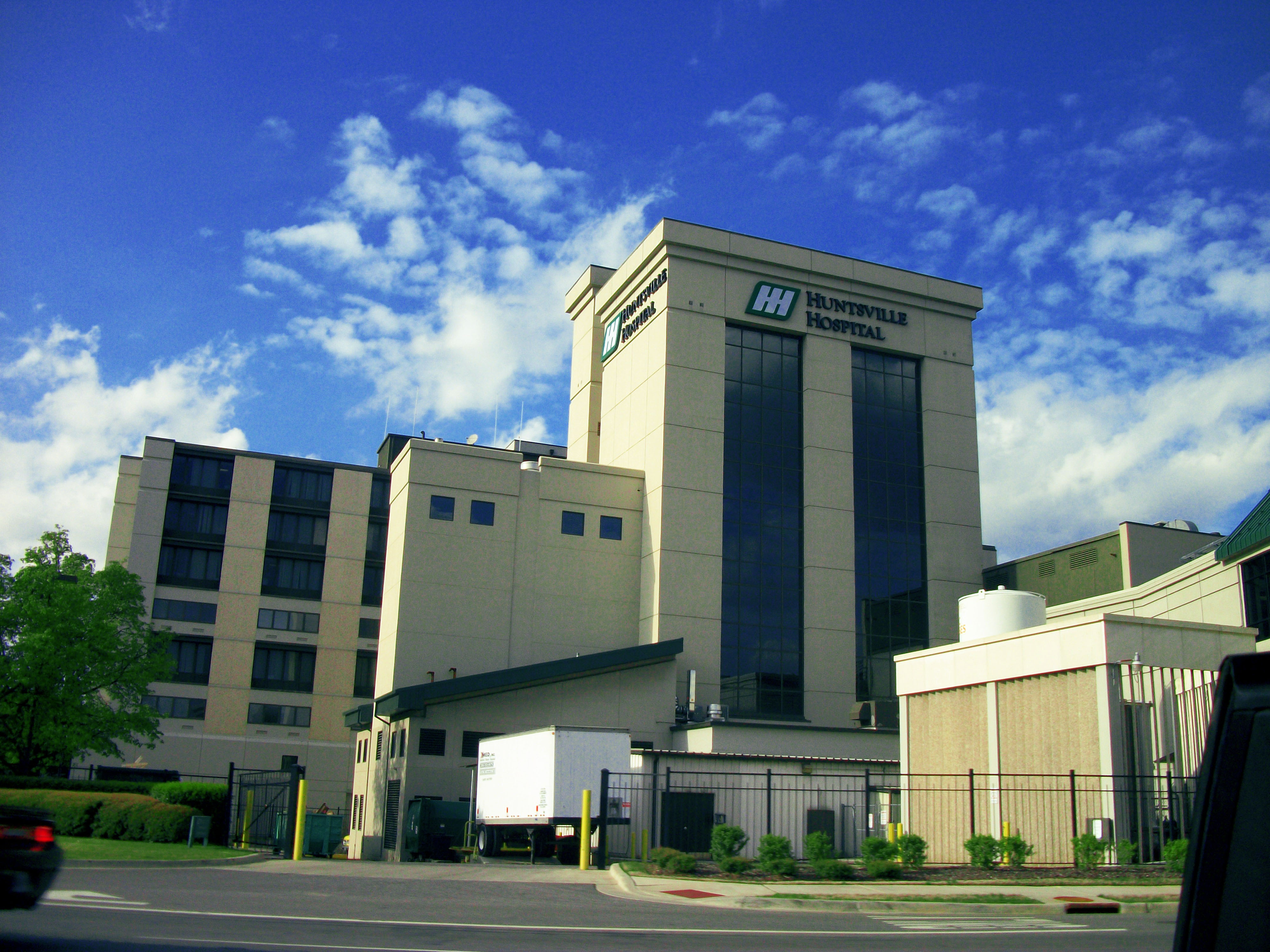 A picture of Huntsville Hospital. Photograph taken by Larry Wilbourn on May 2, 2011.